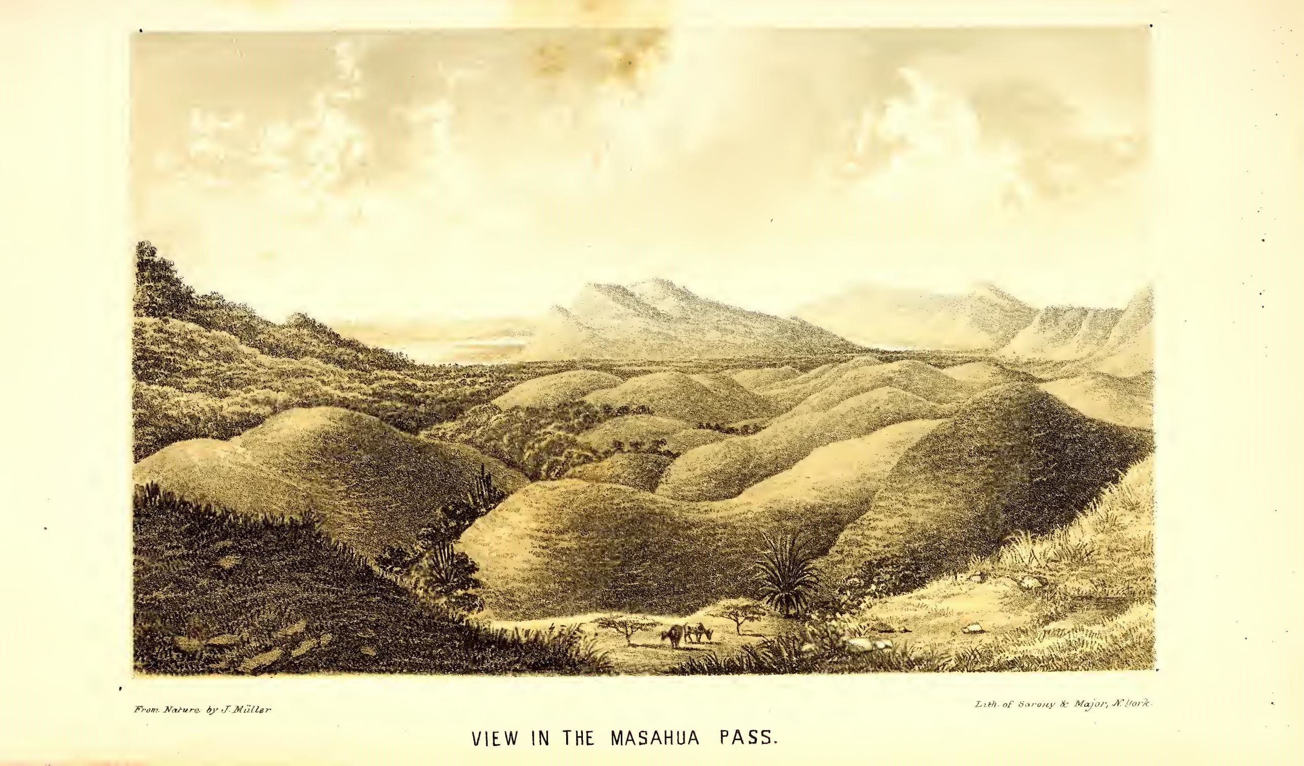 Illustration from The isthmus of Tehuantepec : being the results of a survey for a railroad to connect the Atlantic and Pacific oceans, made by the scientific commission under the direction of Major J.G. Barnard, U.S. engineers